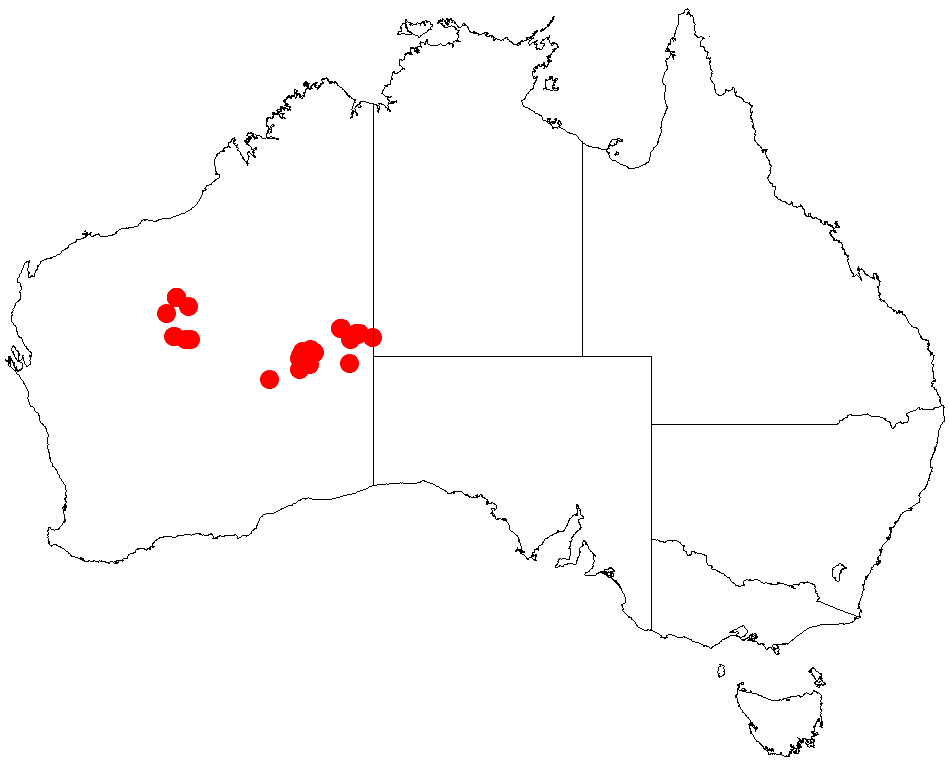 Acacia walkeri occurrence data from Australasia Virtual Herbarium downloaded from on 8 December 2018